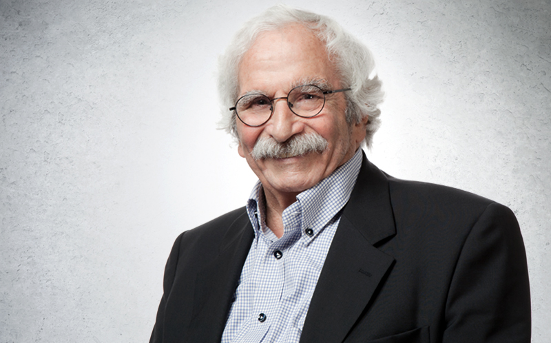 Luigi Bandini Buti